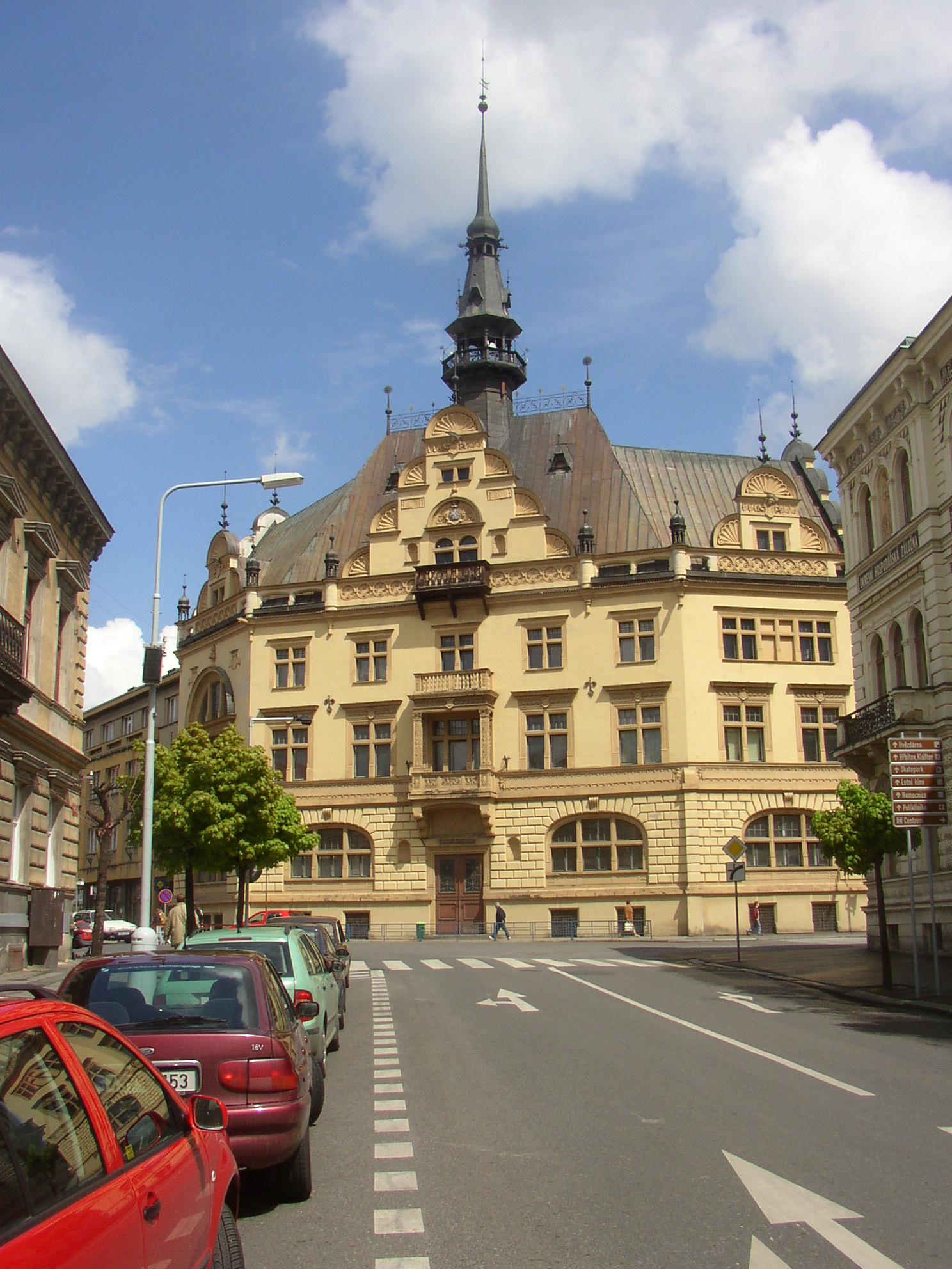 District House from 1902 in Slaný, Czech Republic. The building designed by Jan Vejrych housed administration of former Slaný District.